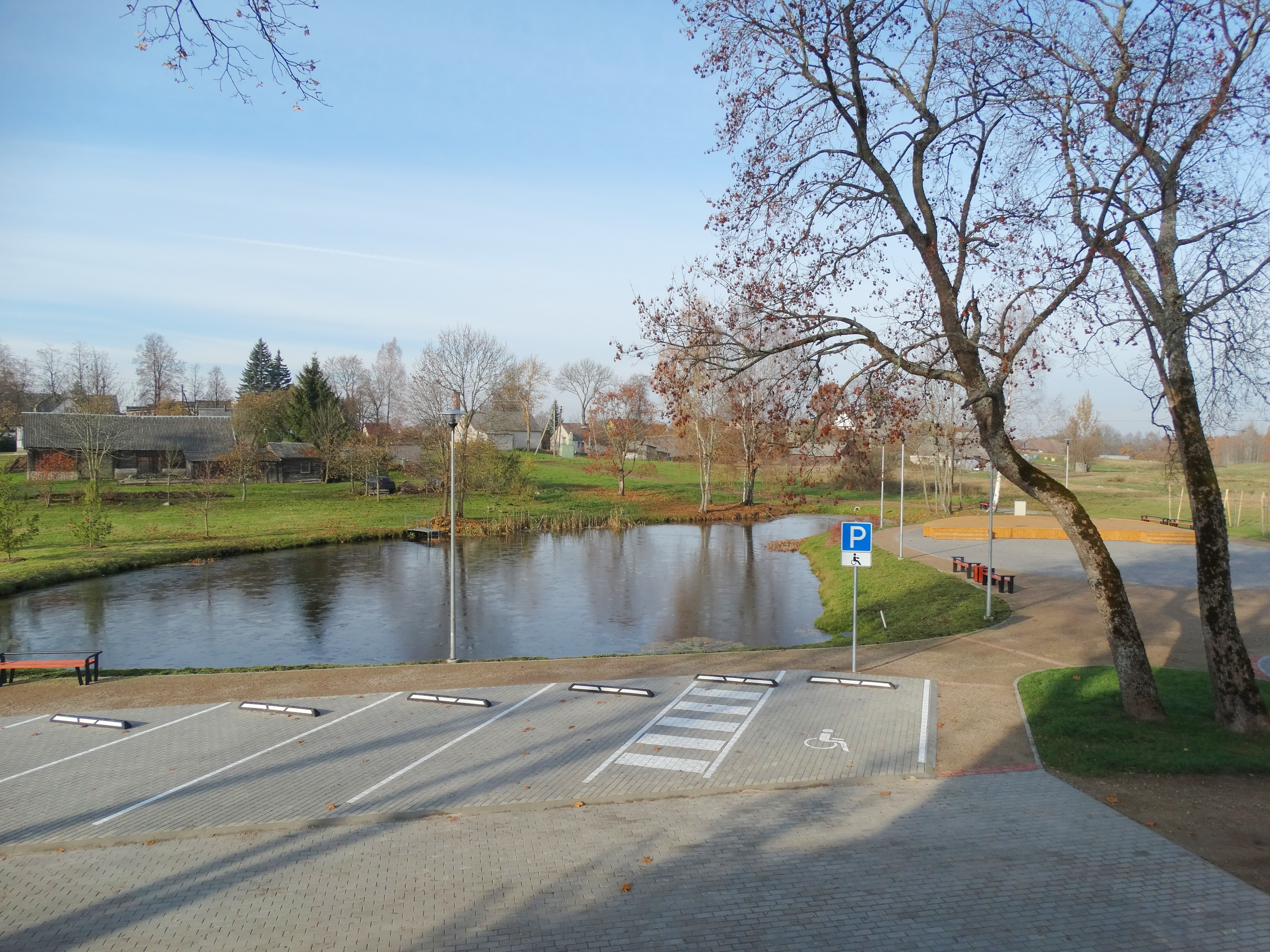 Daugailiai, Utena district, Lithuania